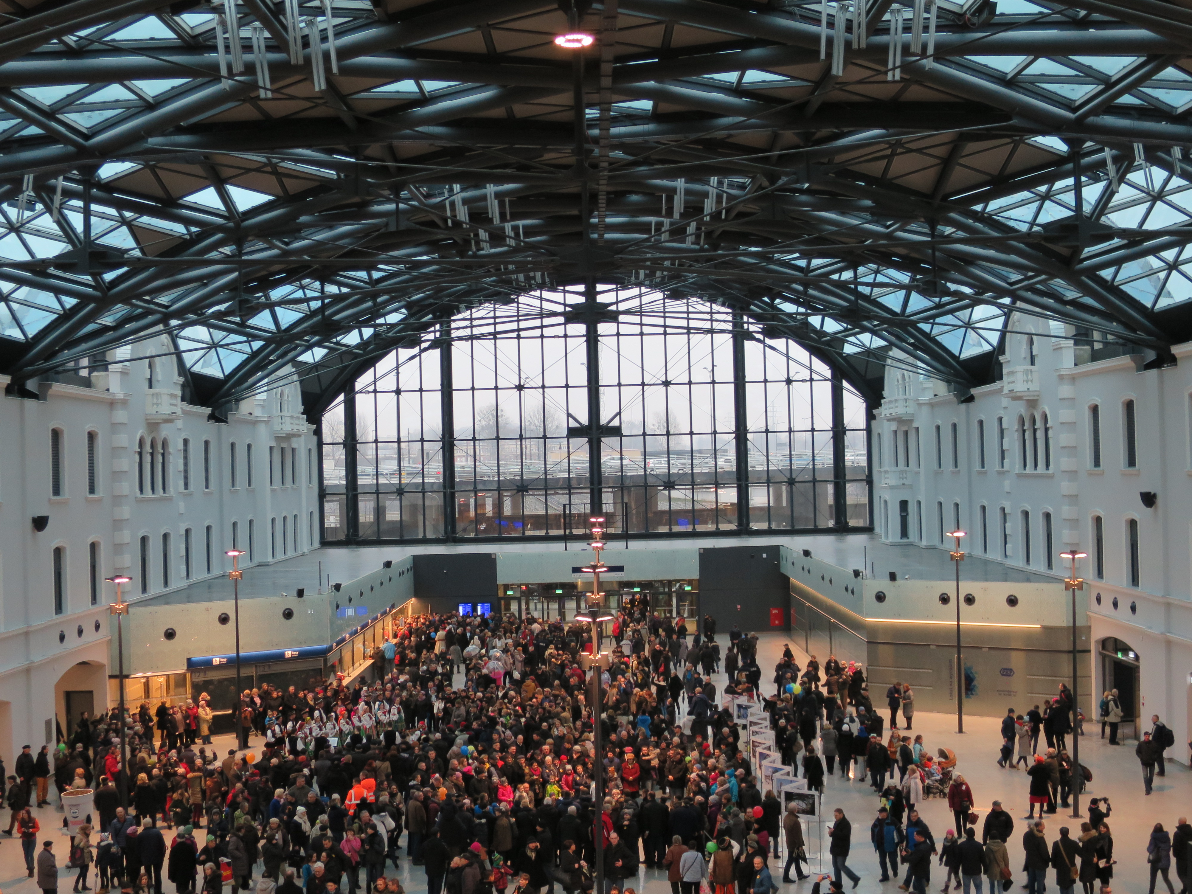 The making of this document was supported by Wikimedia Polska Association, within Wikigrant no. WG 2016-56. Łódź Fabryczna - hol dworca